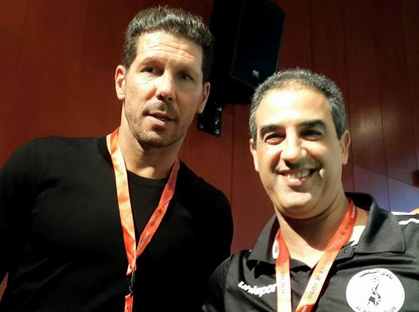 Hicham Jadrane with Spanish Coach Diego Simeone at 2nd UEFA License Formation. Spanish Football Association, Las Rozas